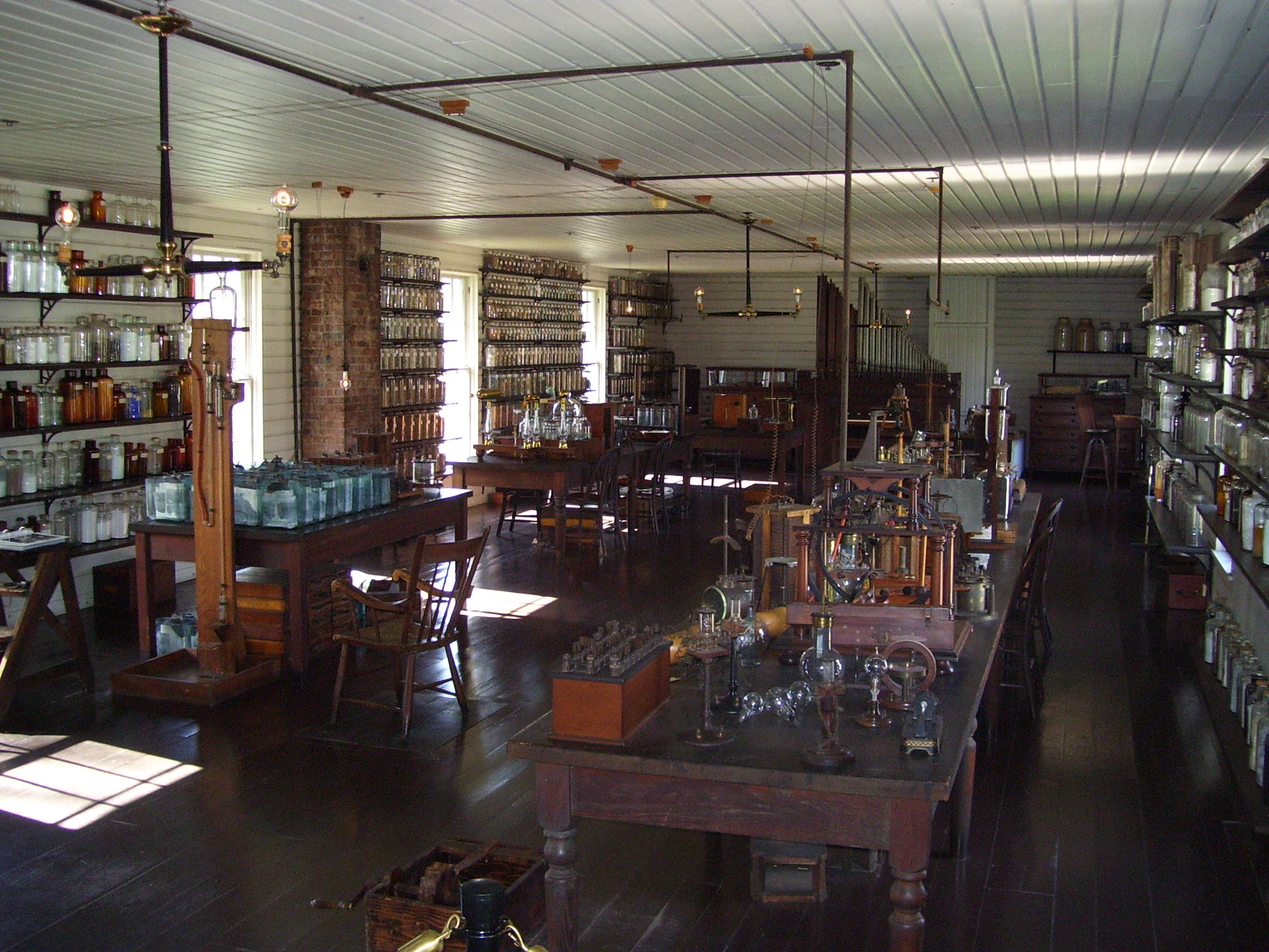 Menlo Park Laboratory of Thomas Edison site of the Invention of the light bulb. Currently, it is located in Dearborn, Michigan at Greenfield Village, part of The Henry Ford Museum. This replica of the laboratory was built in 1929 in Greenfield Village.